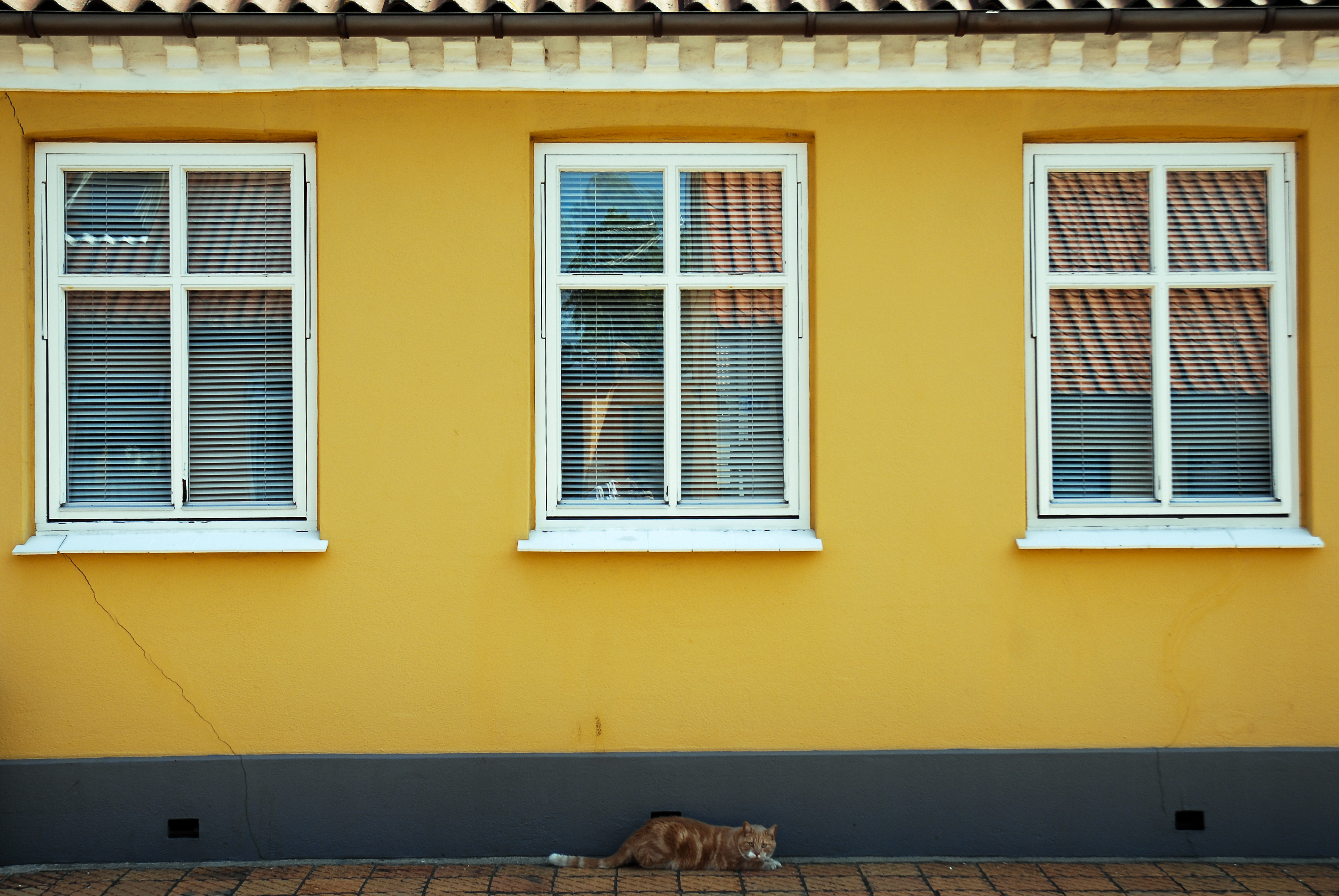 Reflections of the streets of Rønne, Bornholm, Denmark, Northern Europe.